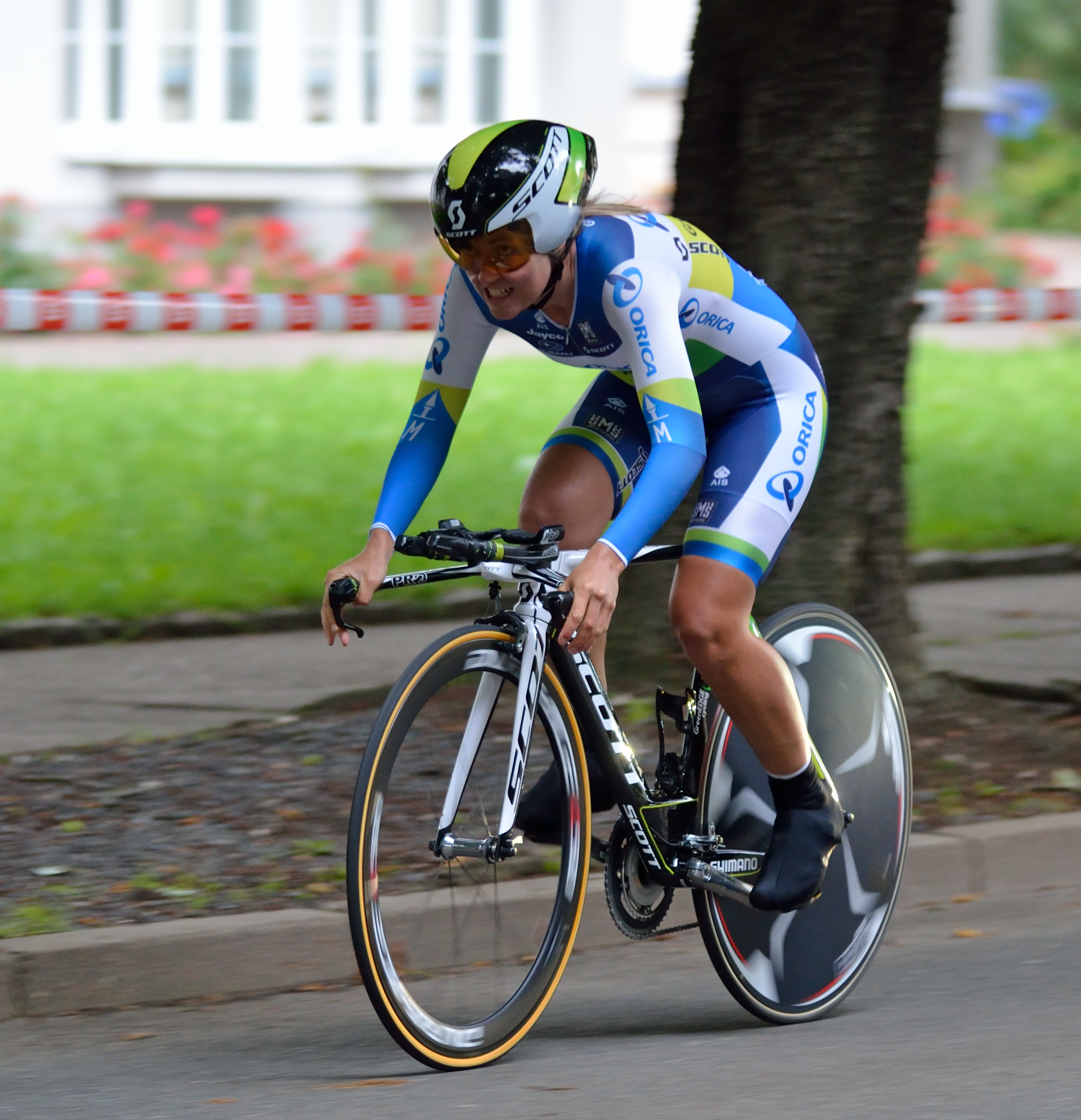 Alexis Rhodes from the Orica-AIS team during the Women's Tour of Thuringia 2012 in Zwickau, Germany.